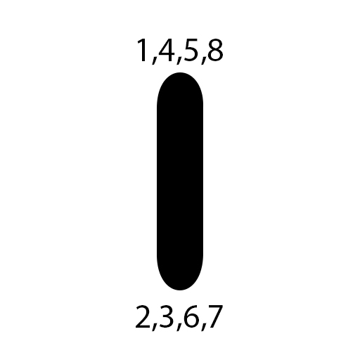 Front on view of the flat plane crank with corresponding connecting rod locations